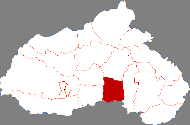 Location of Pingxiang county in Xingtai City, China